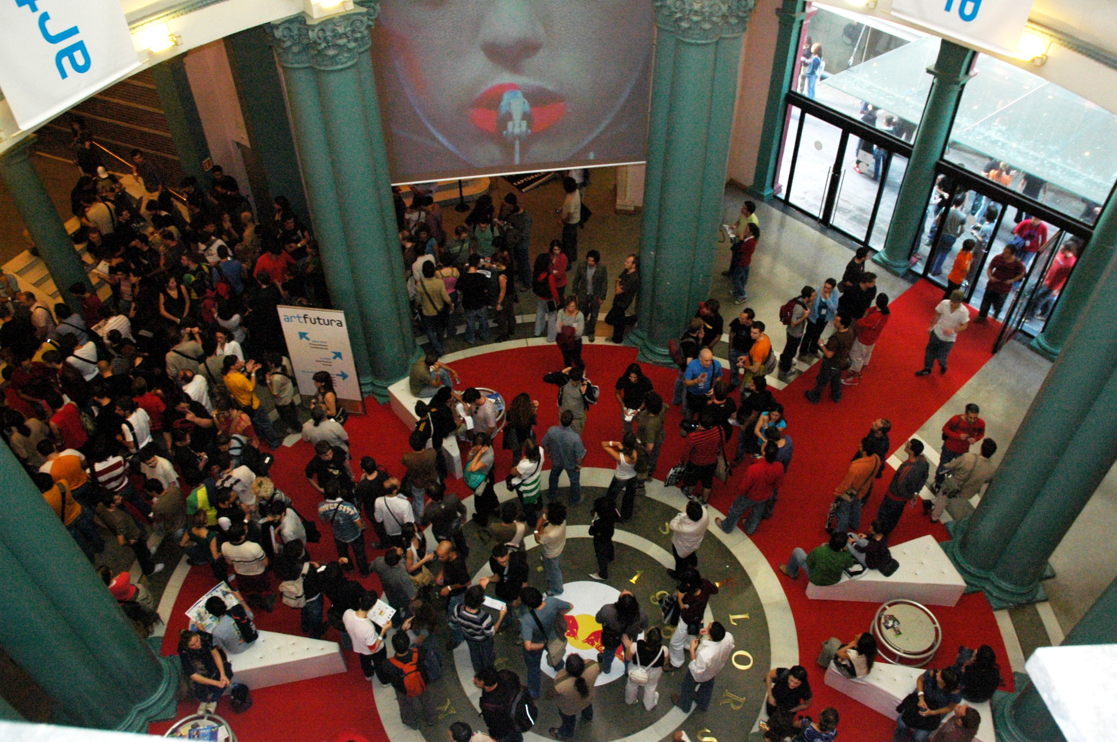 ArtFutura Festival, Barcelona 2006